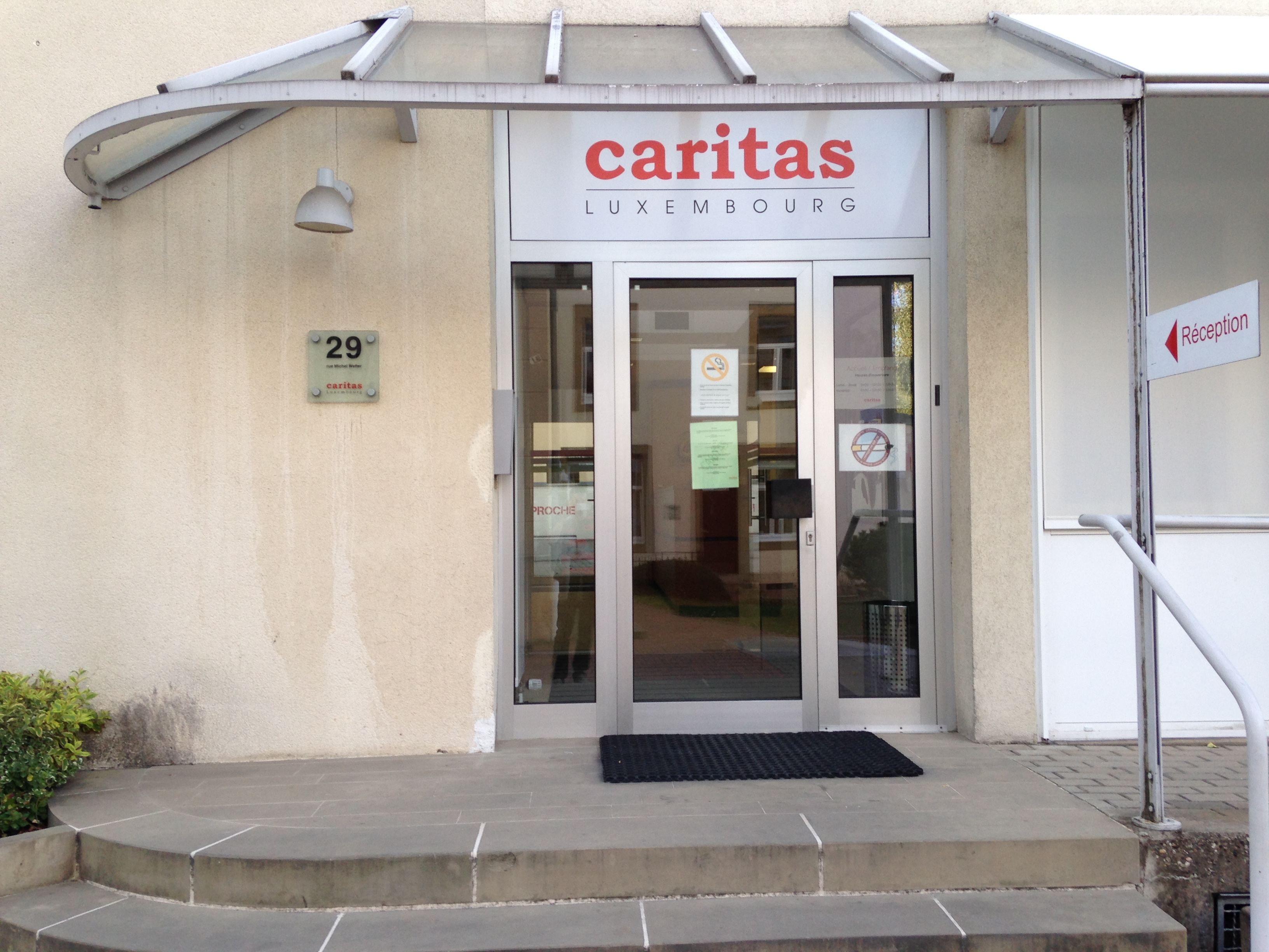 Entrance of the HQ of Caritas Luxembourg in Michel Welter Street in Luxembourg City.